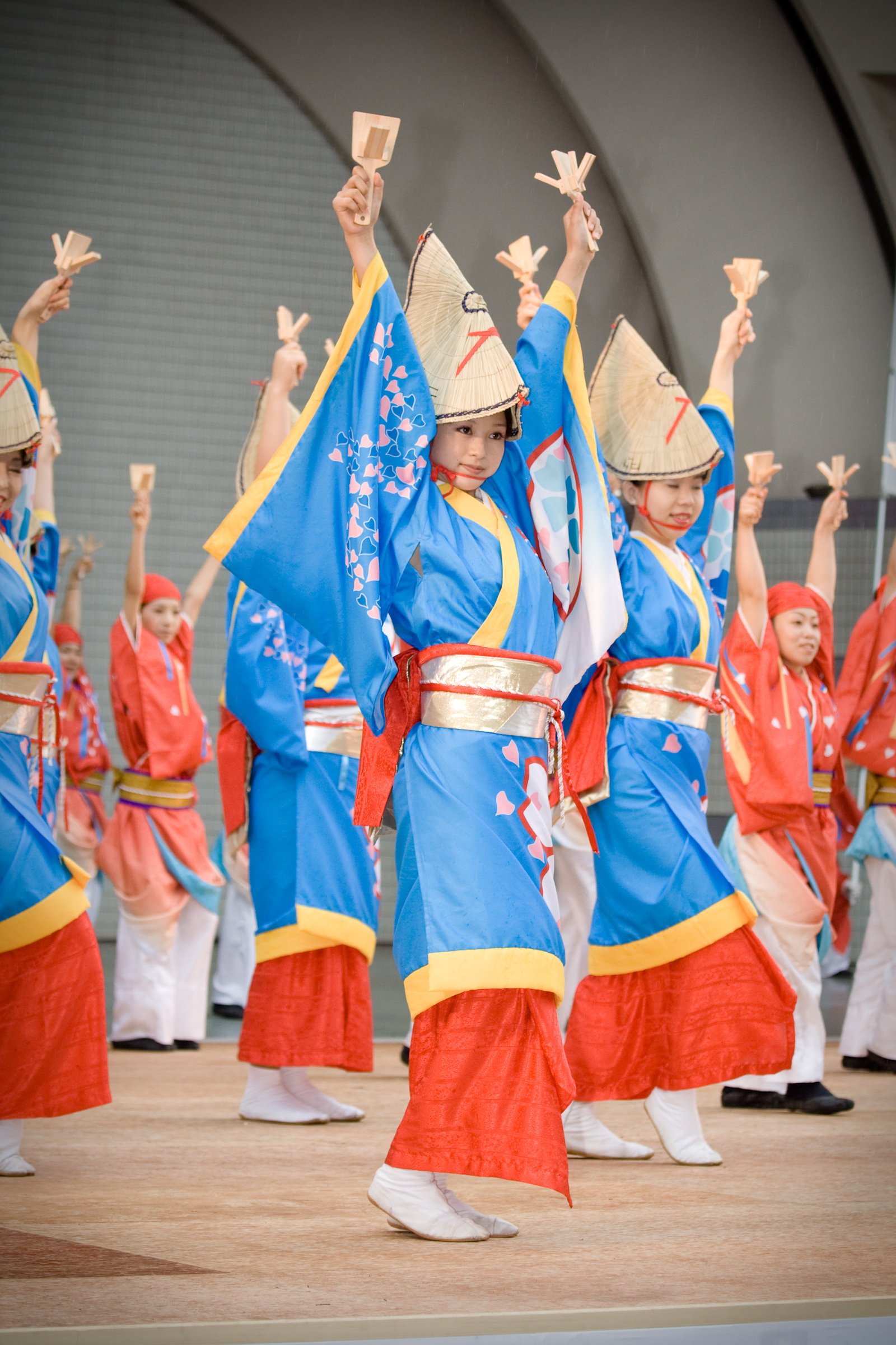 A performer,juunin-toiro TEAM at the 2008 Super Yosakoi Festival in Harajuku.